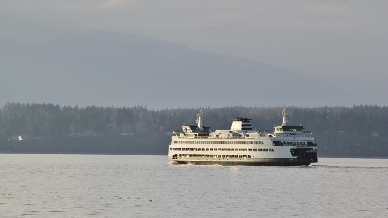 The M/V Tacoma meets sunset light while sailing to Winslow, Bainbridge Island